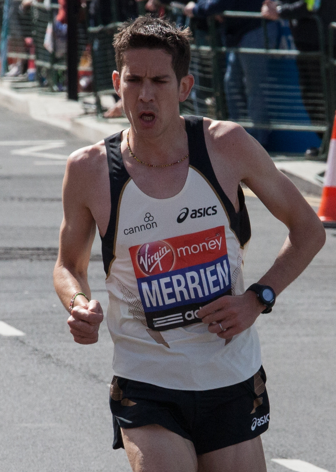 A cropped version of File:Lee Merrien.jpg.